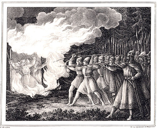 Captioned as "Konung Ingjald Illråda bränner upp 6 Fylkiskonungar", according to the source page. Etching by Hugo Hamilton, depicting the burning of six county kings of Sweden around the 7th century. Original image size approximately 17 x 22 cm.